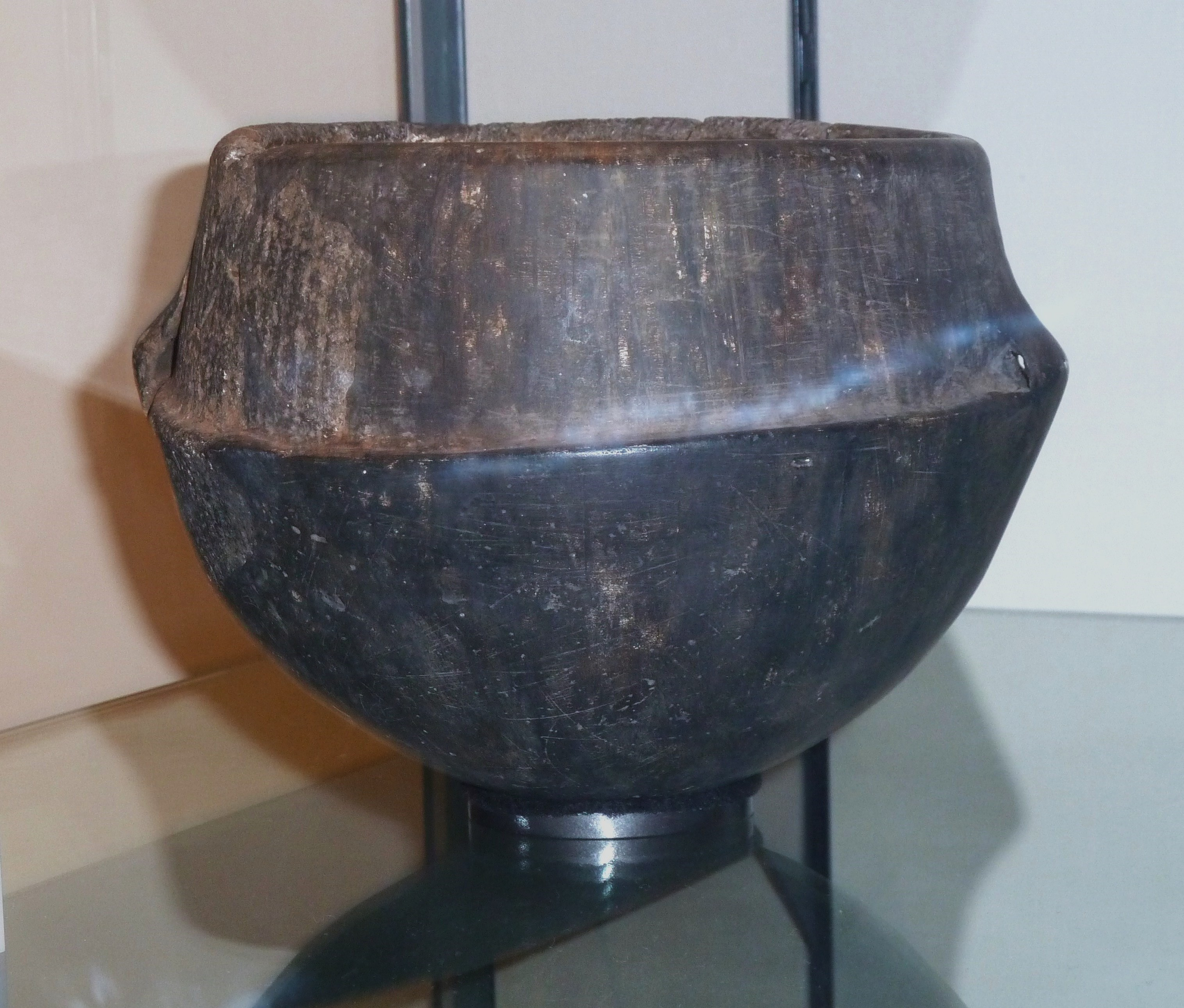 Ulster Museum prehistory Neolithic age Neolithic pottery. Ballymarlagh, Co. Antrim, Ireland.